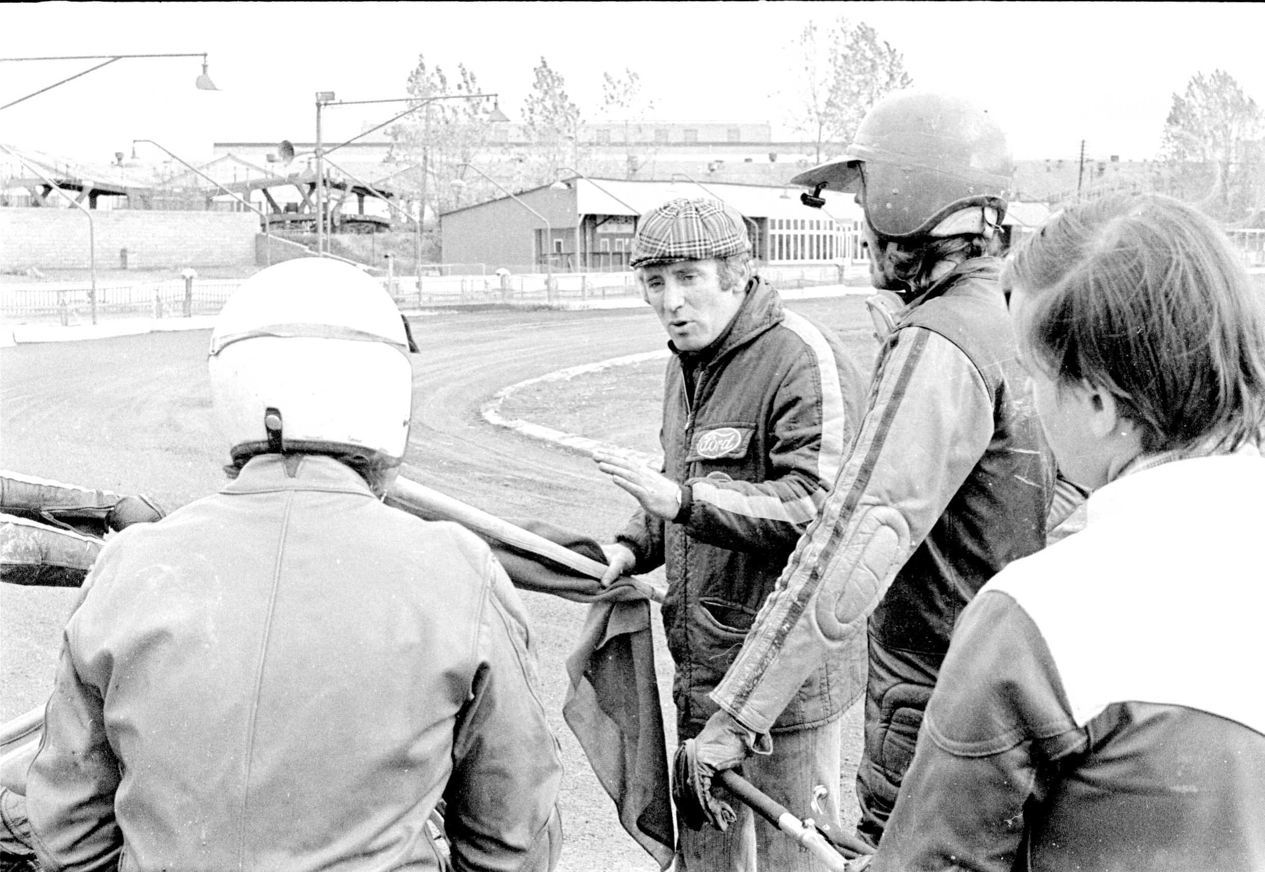 Speedway rider Pete Jarman passes on his knowledge to novices